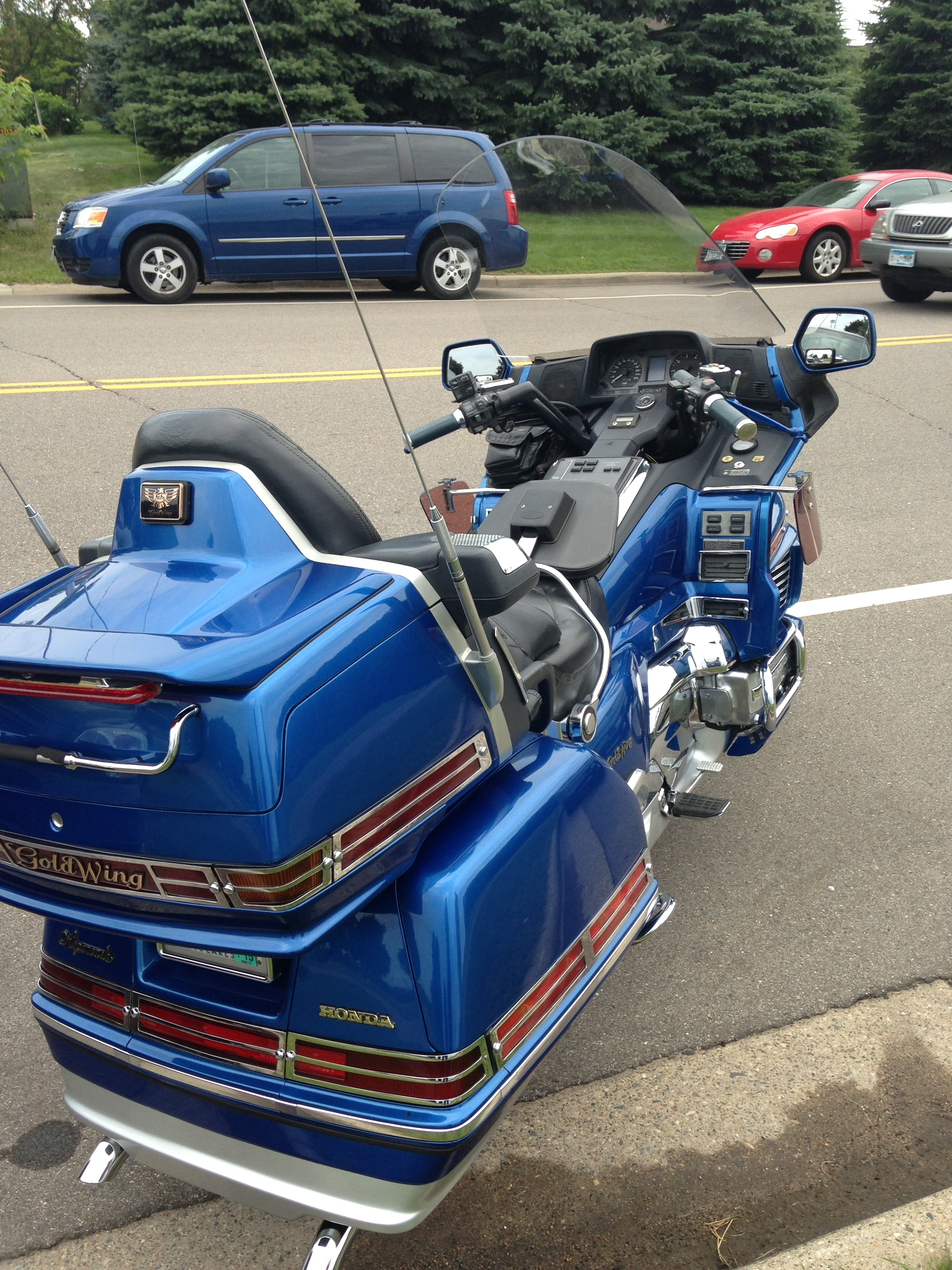 A Honda GoldWing GL1500 with the dashboard visible